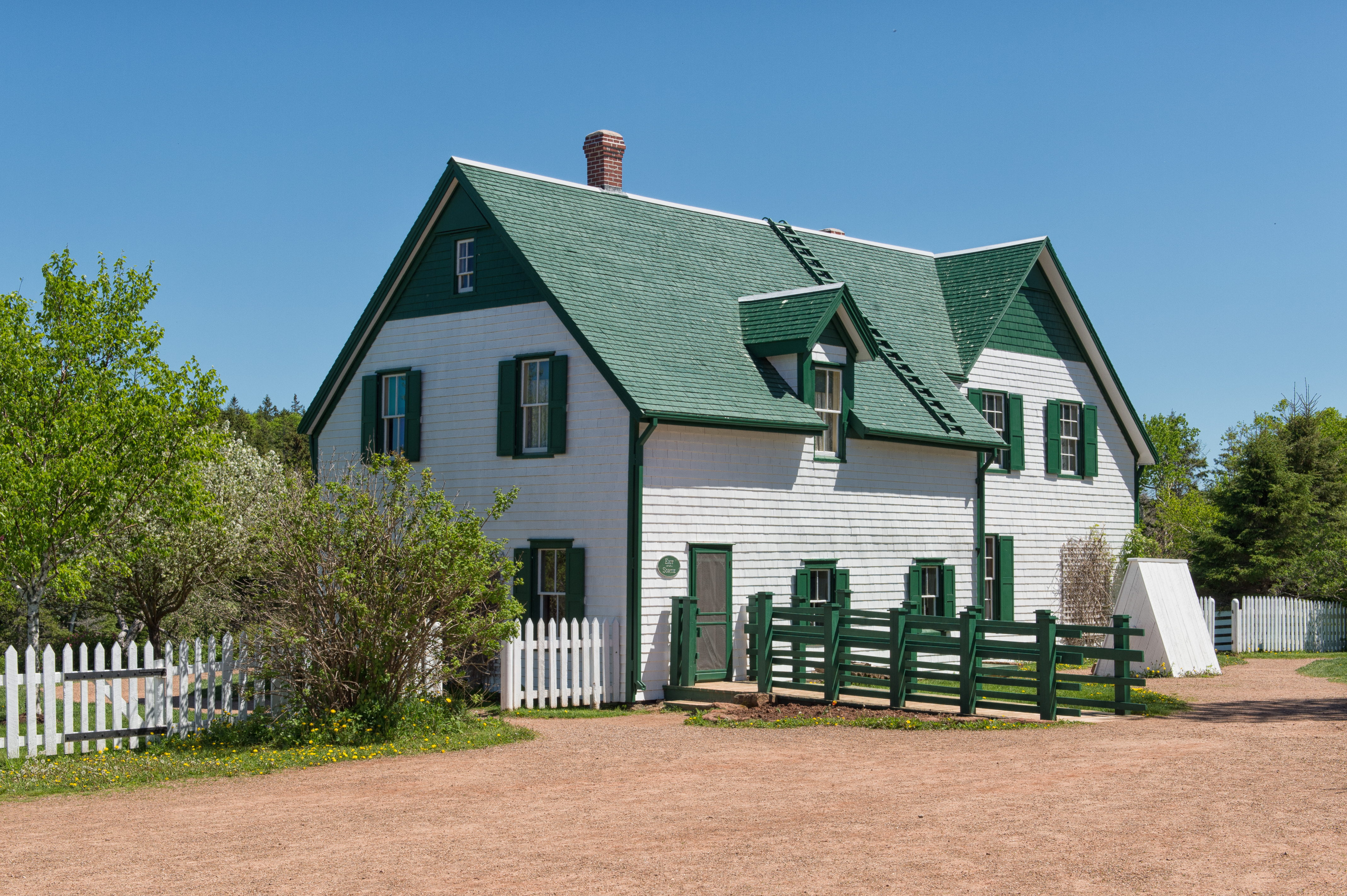 Green Gables House, Cavendish, P.E.I.